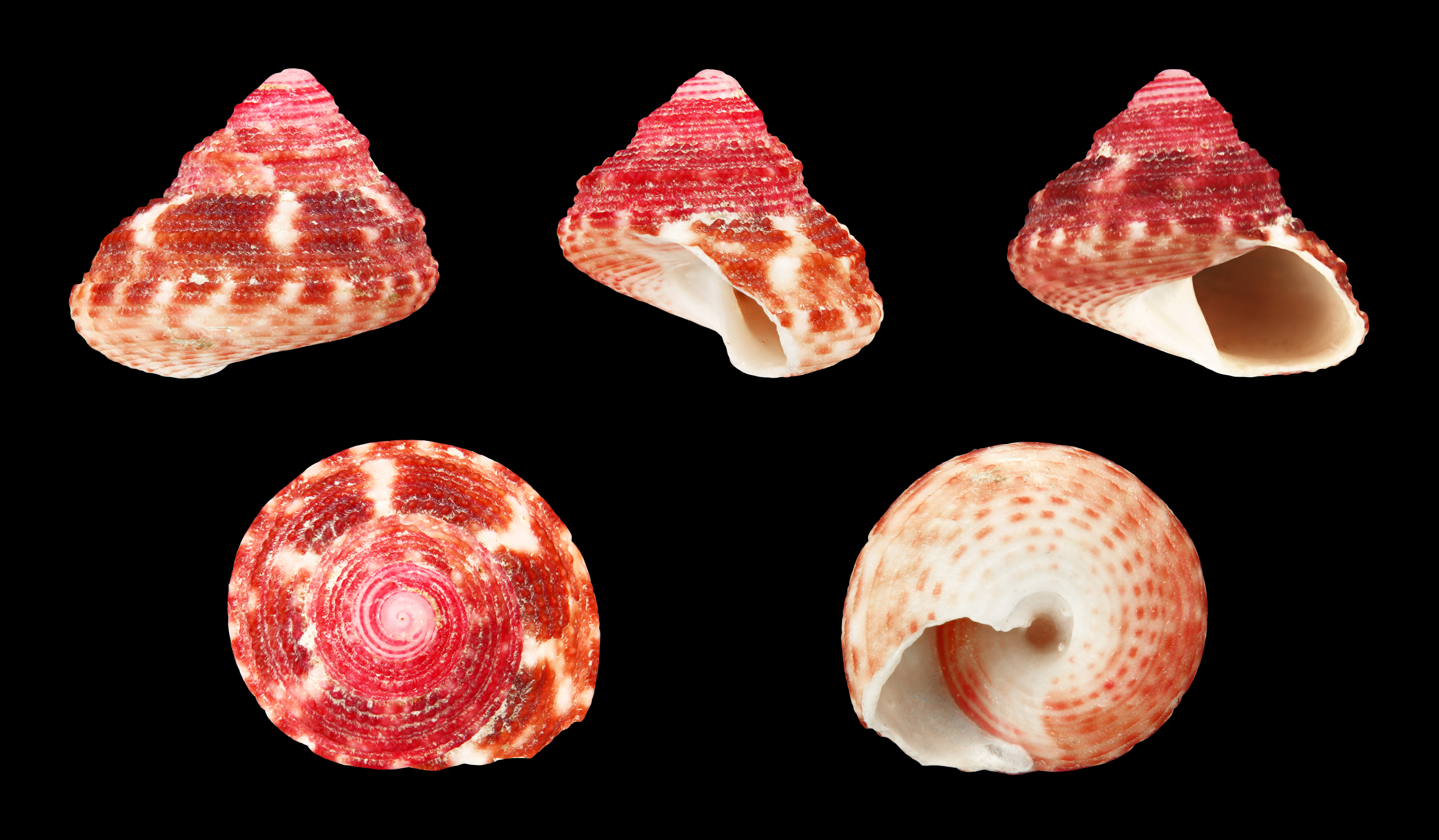 Diameter 1.0 cm; Originating from Cape Agulhas, South Africa; Shell of own collection, therefore not geocoded. Dorsal, lateral (right side), ventral, back, and front view.